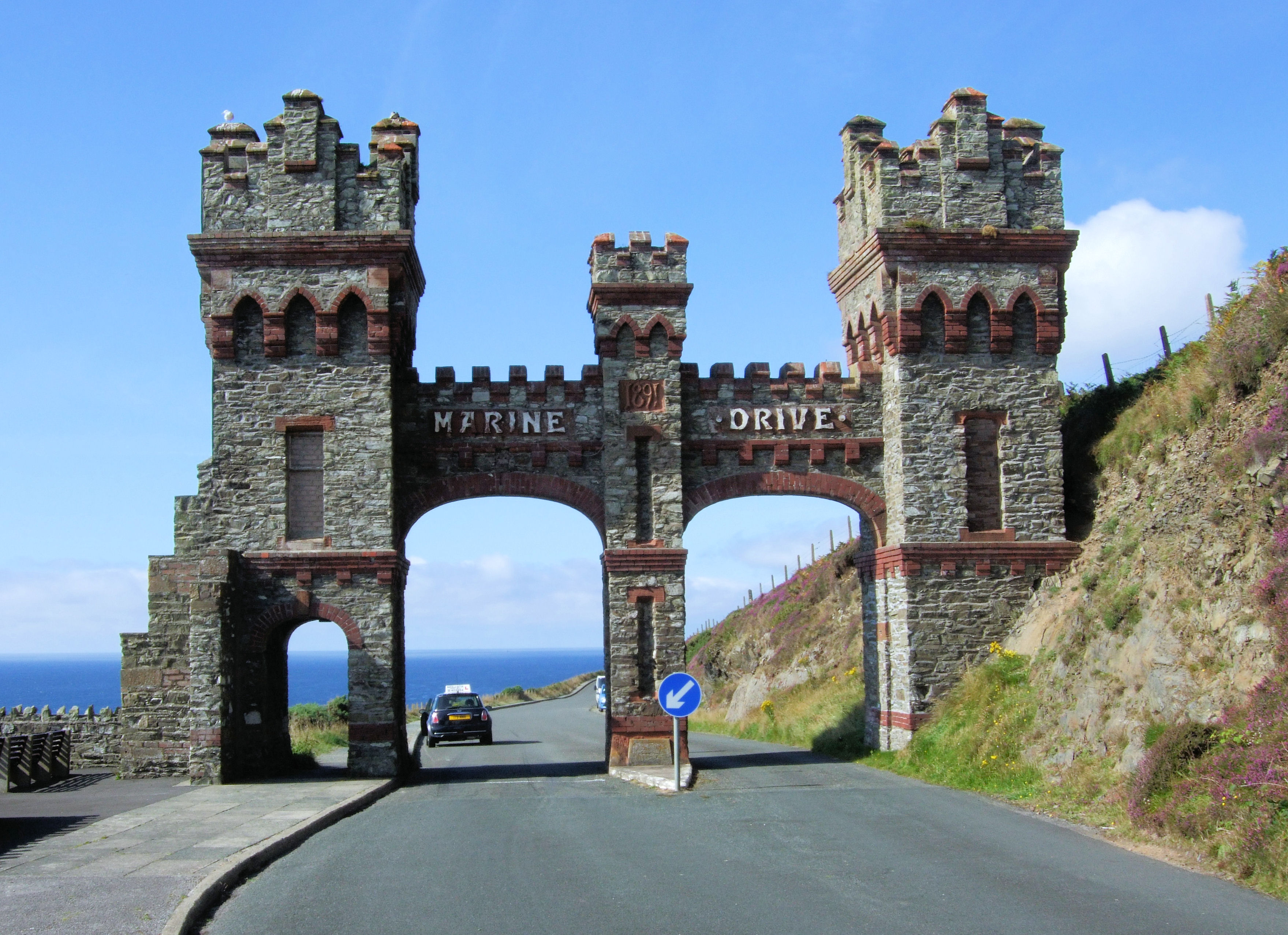 Marine Drive was a toll road, and the impressive arched gateway was the toll gate.